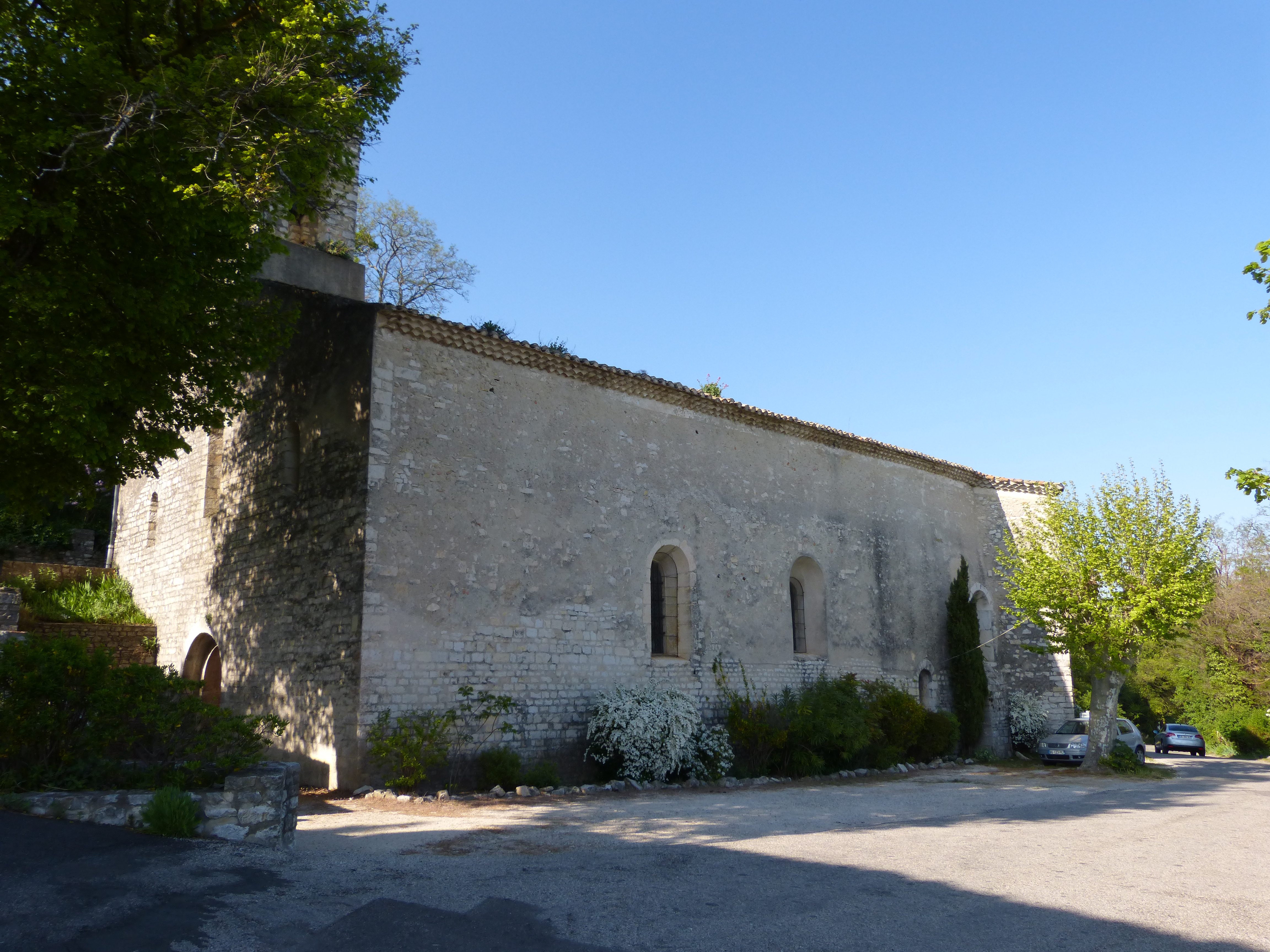 Outside view from the church of Savasse.